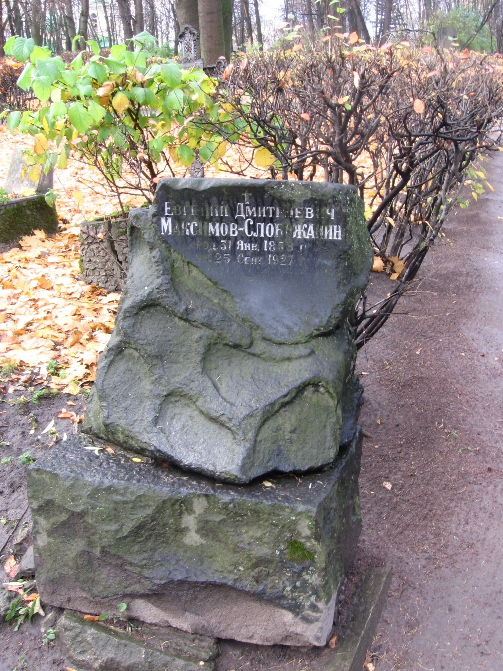 Grave of Eugeny Maximov